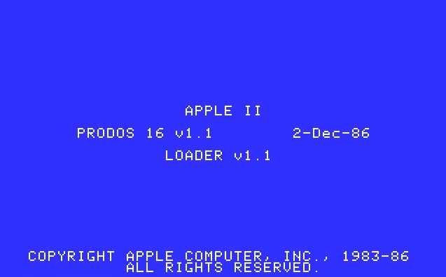 Startup screeen ProDOS 16 v1.1